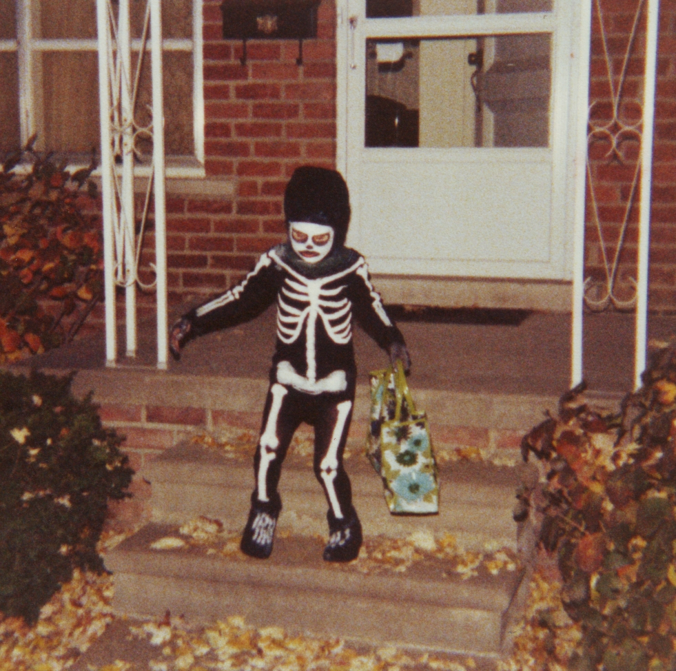 Photo of a Halloween trick-or-treater, Redford, Michigan, United States.